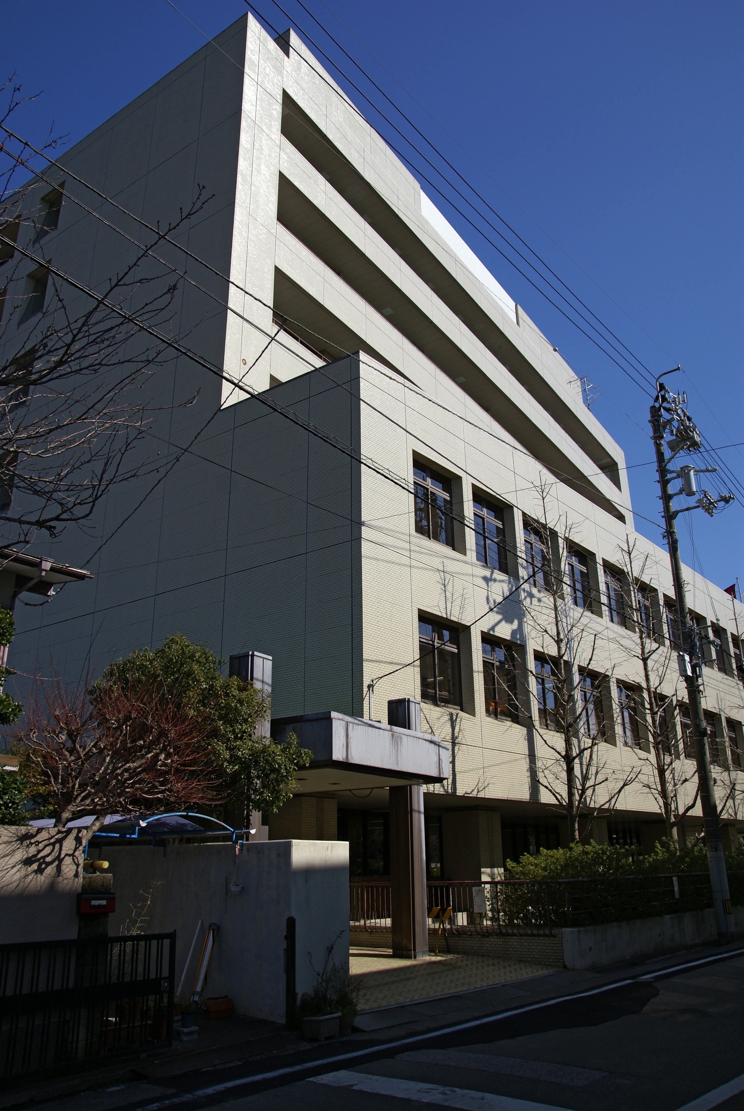 Kochi City Hall in Kochi, Kochi prefecture, Japan